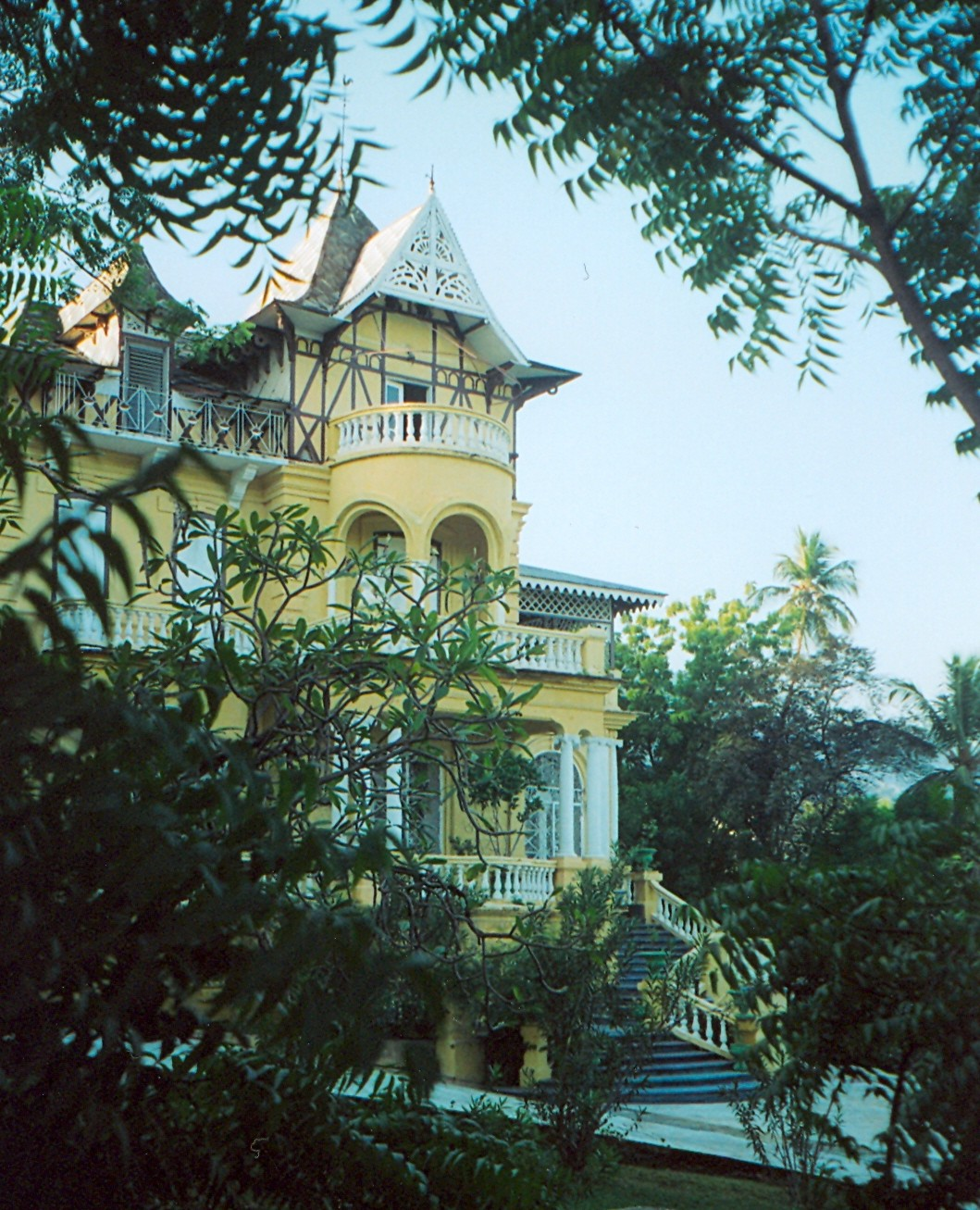 The Cordasco House, an old gingerbread house in Pacot, Port-au-Prince, Haiti. The house was built by Fioravante Cordasco, who was born January 13, 1880 in Teora, Italy and died February 2, 1964 in Haiti.